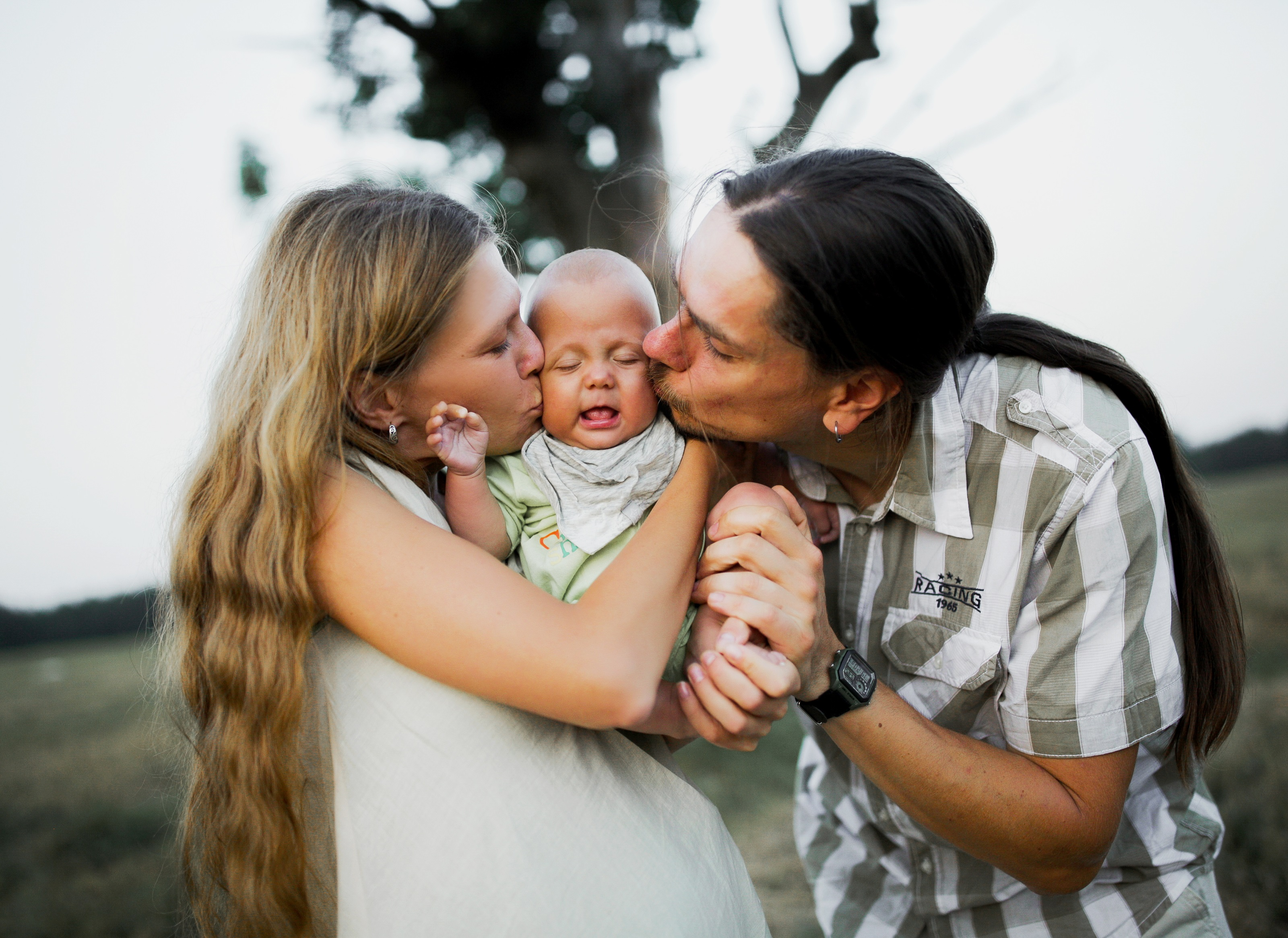 This photo has been taken in the country: Belarus